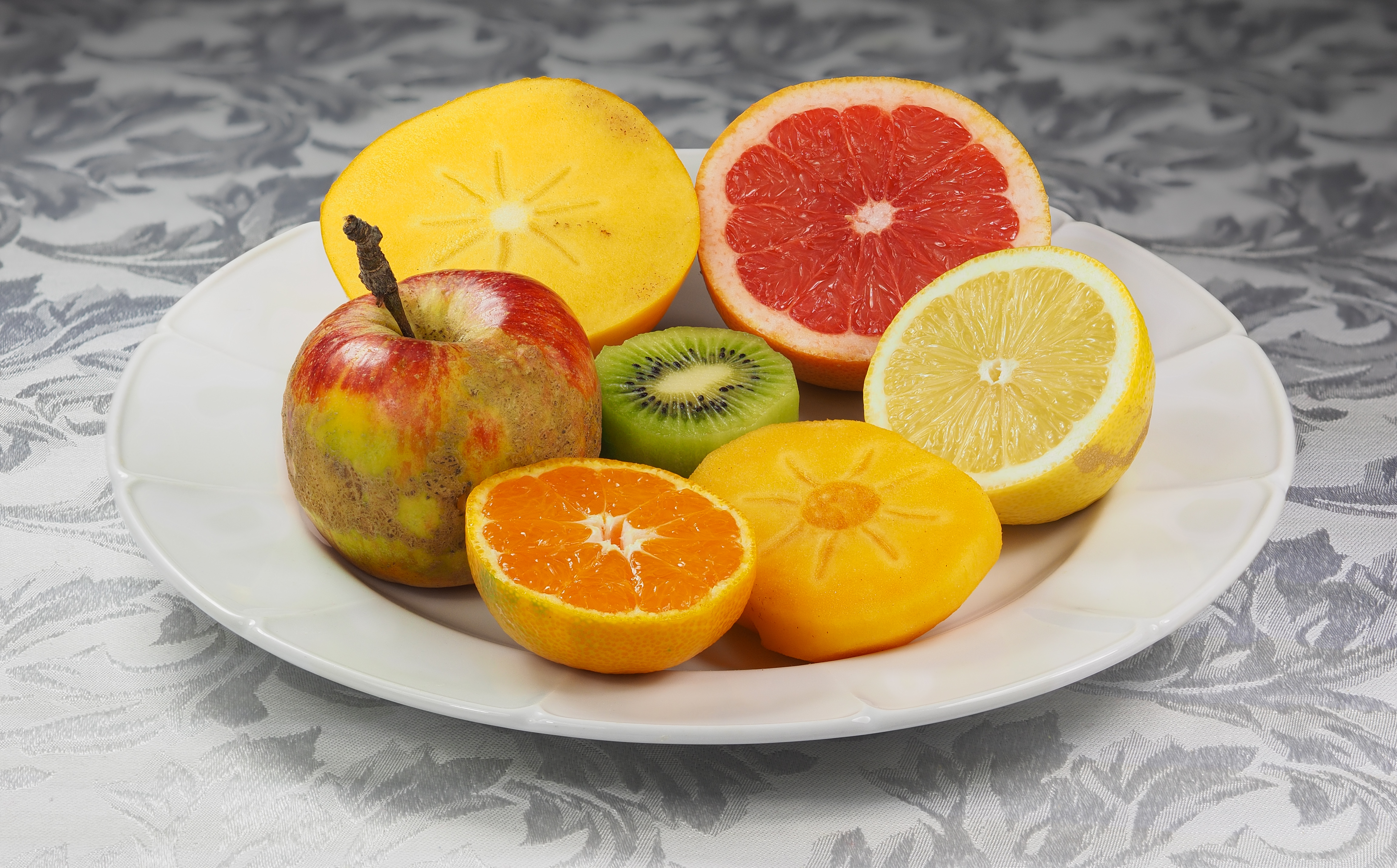 Dish with seedles fruits (mandarin orange, lemon, persimmon (Diospyros kaki), grapefruit, kiwi) and apple (false fruit). This photograph was taken with an Olympus E-M1